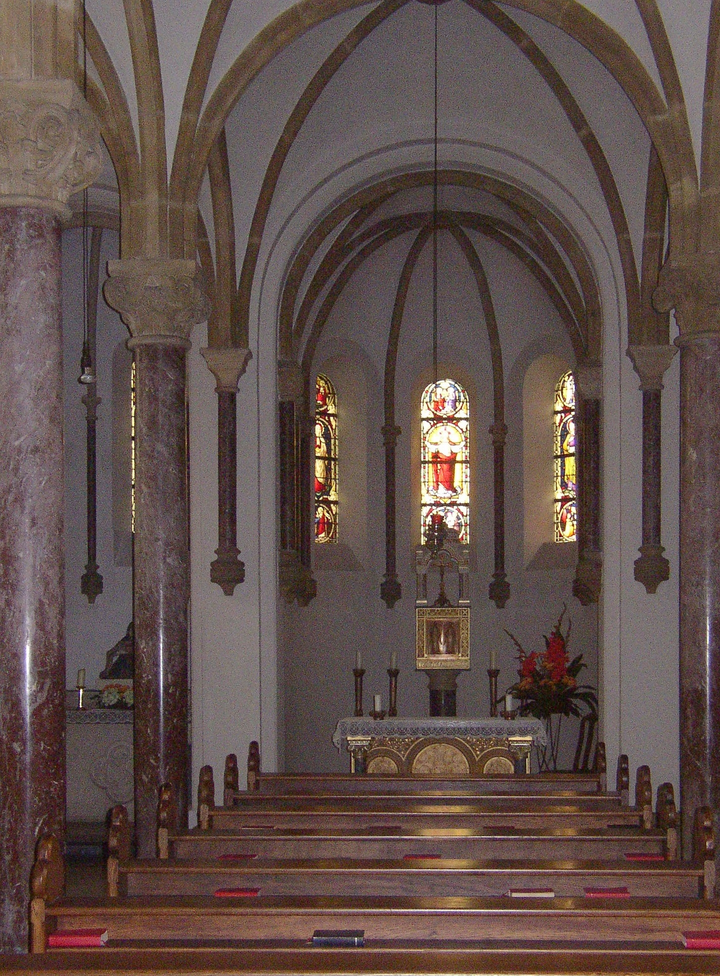 view into chapel of moated castle Brincke in Borgholzhausen, County of Gütersloh, Germany